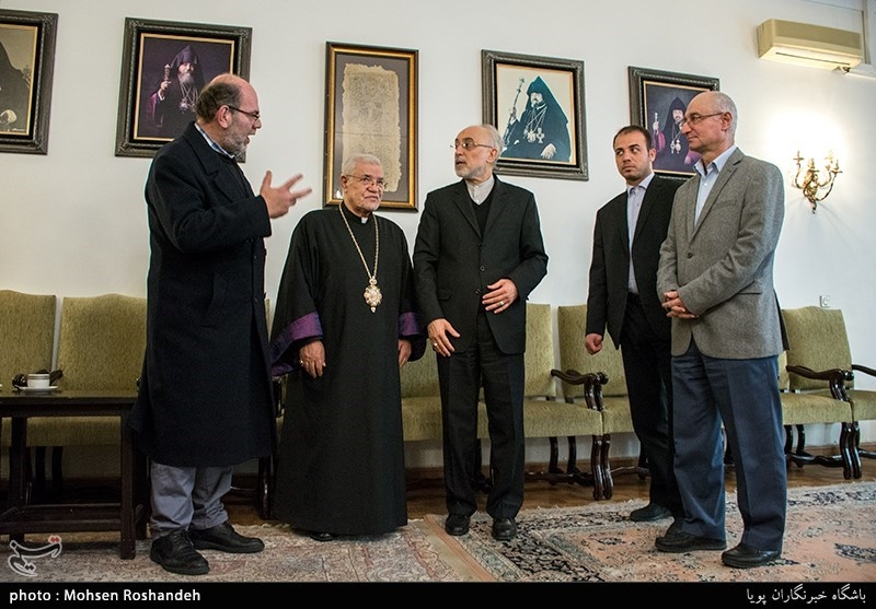 Sepuh Sargsyan, archbishop of the Armenian Diocese of Tehran visit AliAkbar Salehi head of Atomic Energy Organization of Iran at Tehran Prelacy